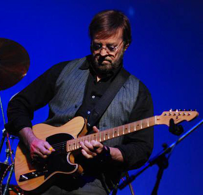 Jerry Donahue playing his Peavey Omniac JD signature model with Gathering - Legends of Folkrock at a concert in the German town Wetter (Ruhr) in late 2008.